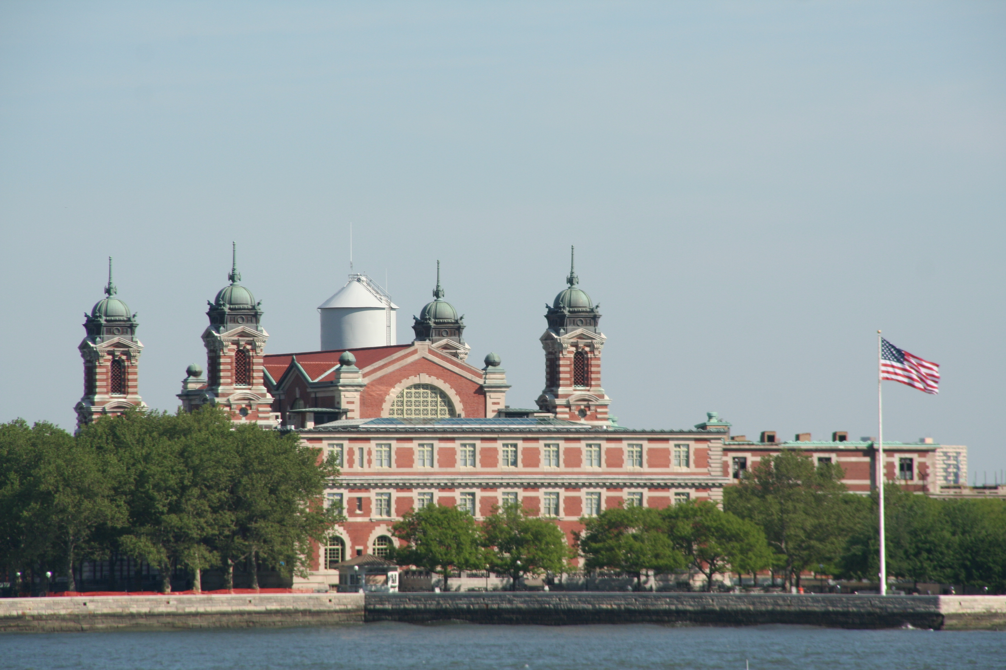 Ellis Island, seen from Liberty Island